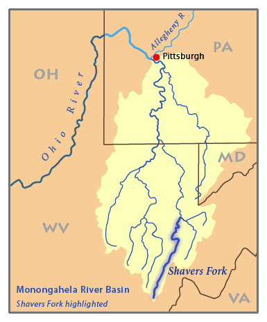 This is a map of the Monongahela River basin, with the Shavers Fork of the Cheat River in West Virginia highlighted. Credits I, Pfly, made it, based on USGS data.